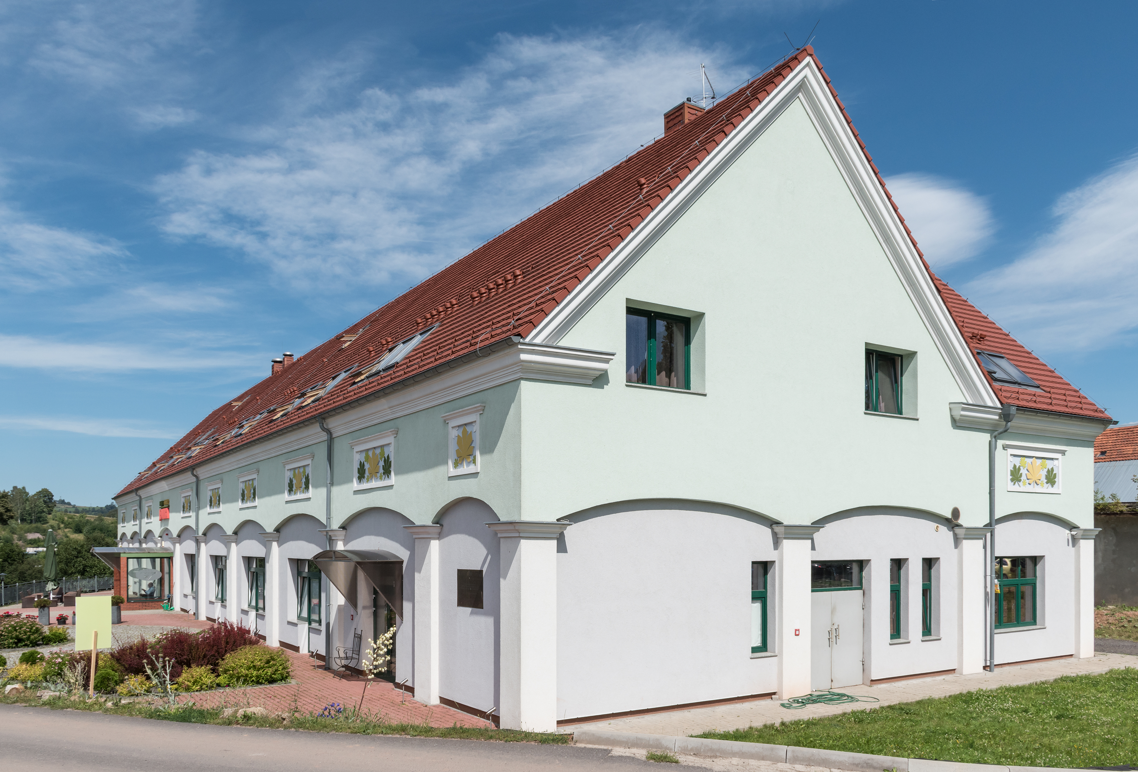 Jedlinka hotel in Jedlina-Zdrój